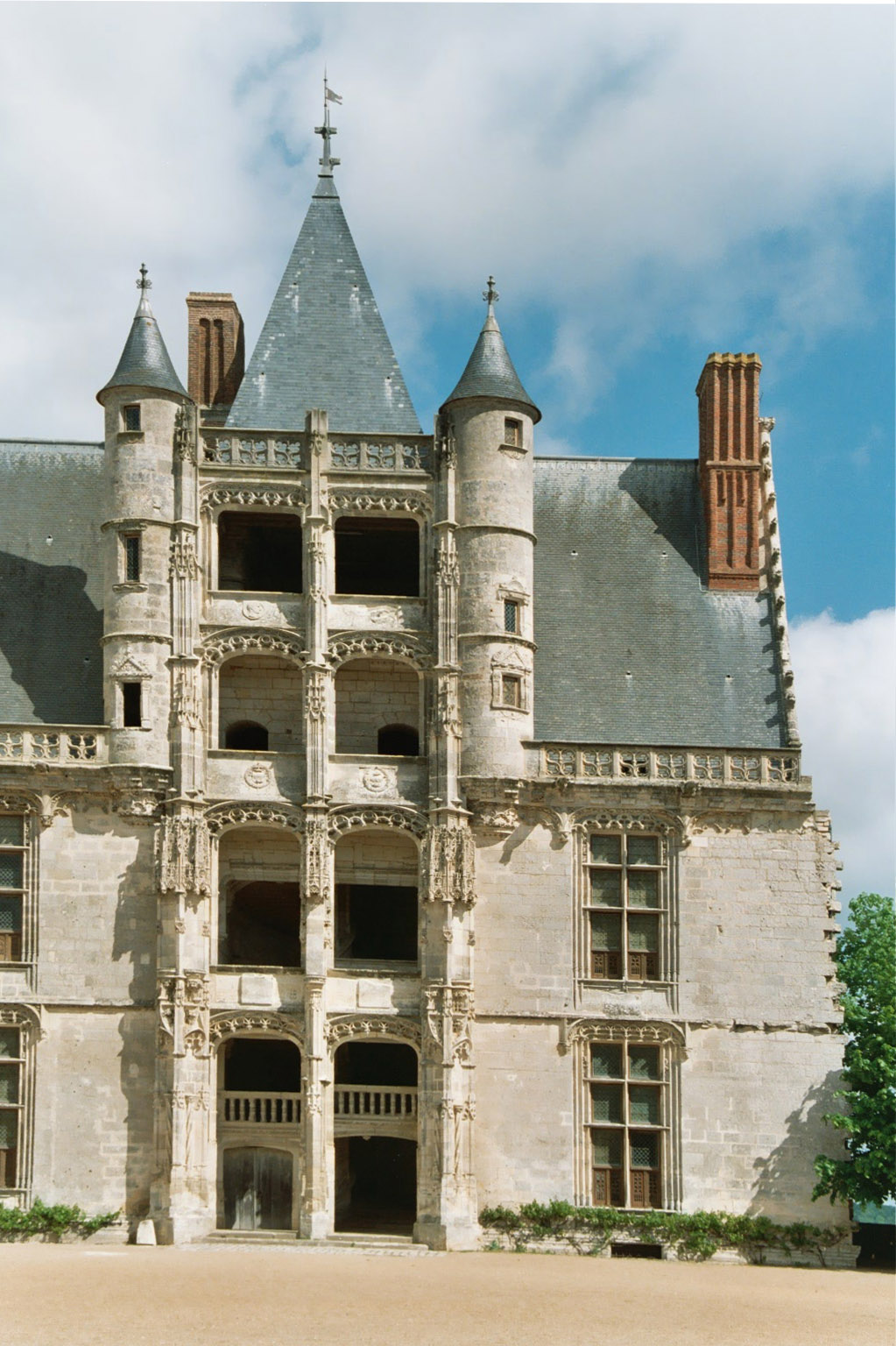 Castle of Chateaudun (France) : Longueville aisle